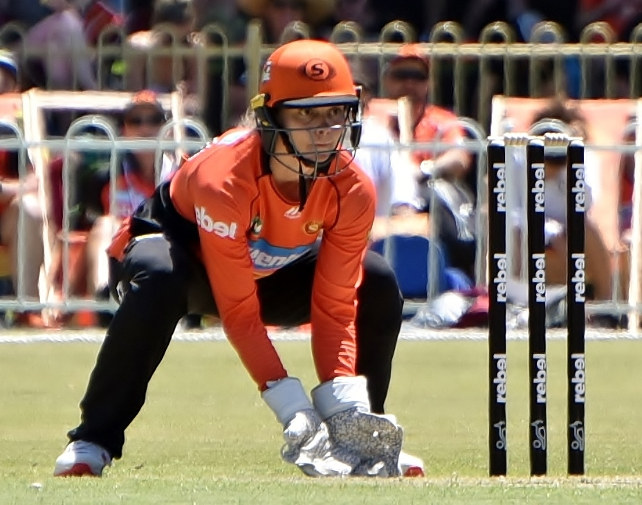 Perth Scorchers wicket-keeper/batter Amy Jones keeping against the Sydney Thunder, in a WBBL match at Lilac Hill Park in Perth.